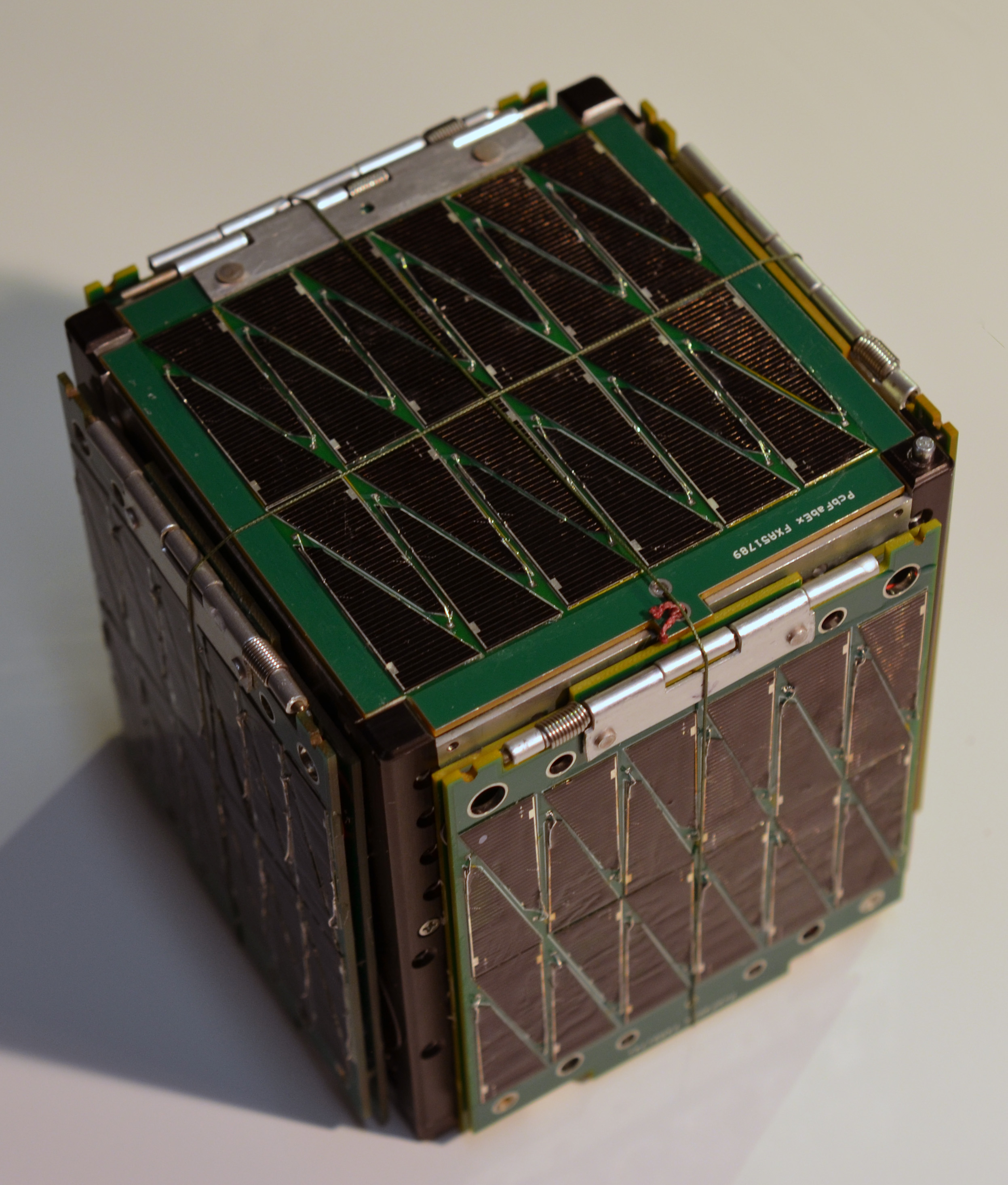 View of the crowdfunded SkyCube cubesat un its undeployed state. Spectra fishing line is used to hold the solar panels in place before deployment.